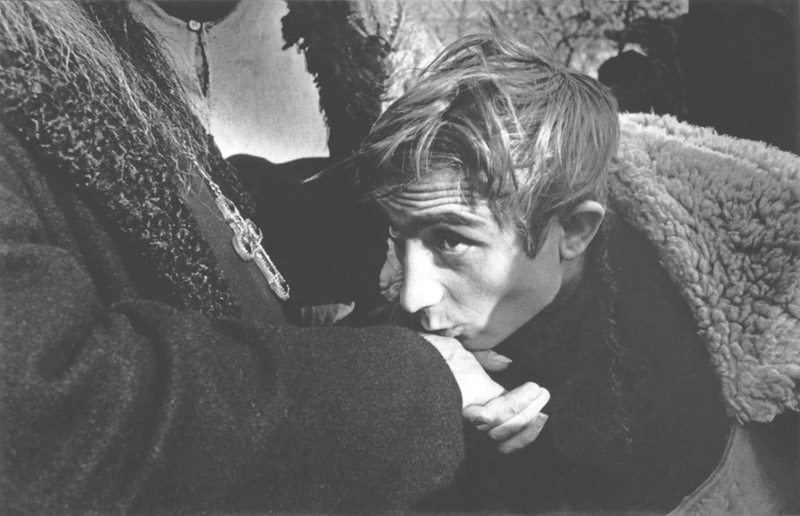 The Moldavian actor Ion Arachelu, during shootings (60th years).